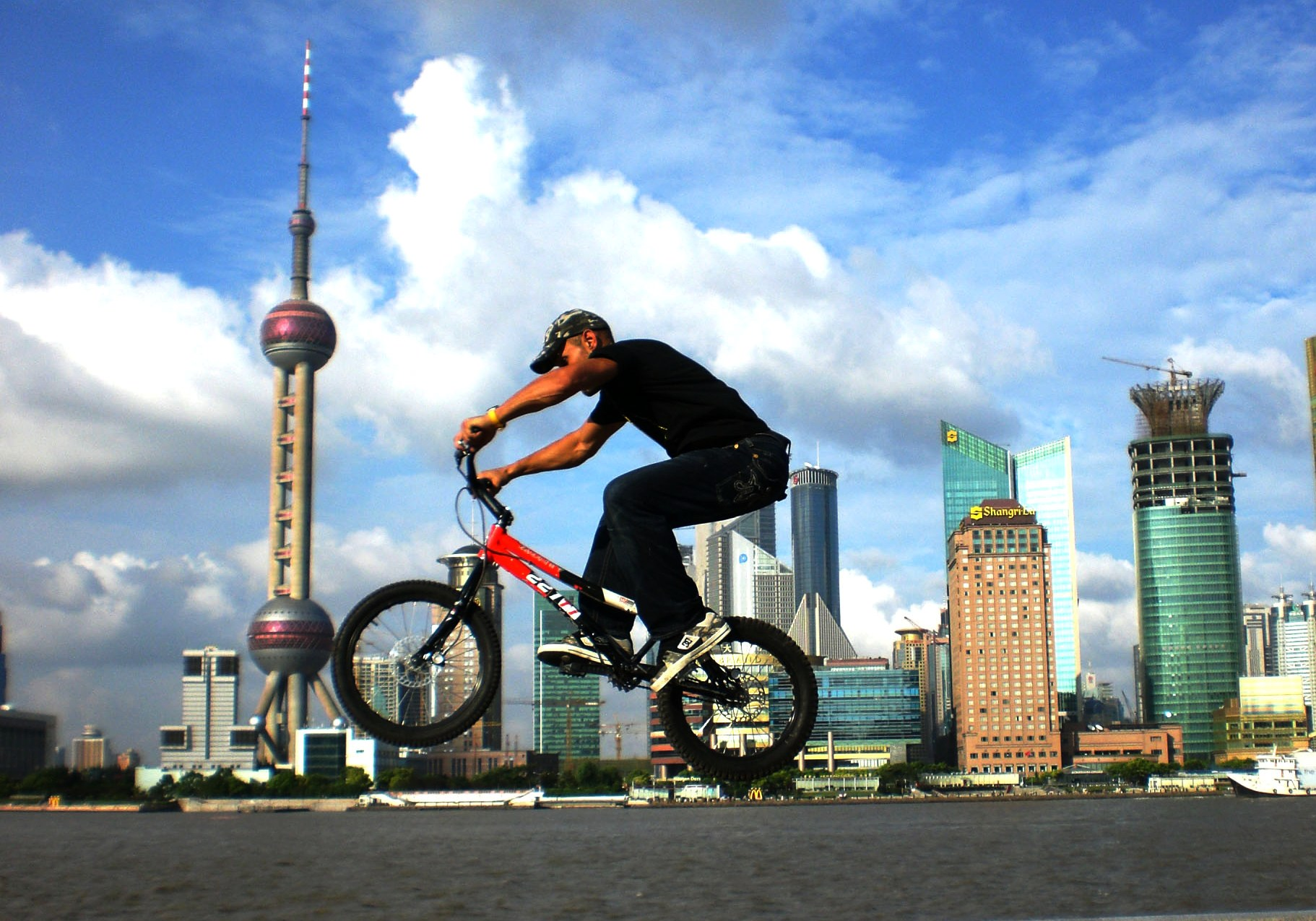 Shanghai Skyline